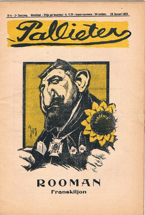 Fernand Rooman (18XX-19XX). Front page of the Flemish magazine Pallieter (1922-1928). All front pages were designed and illustrated by Jos De Swerts (1890-1939).